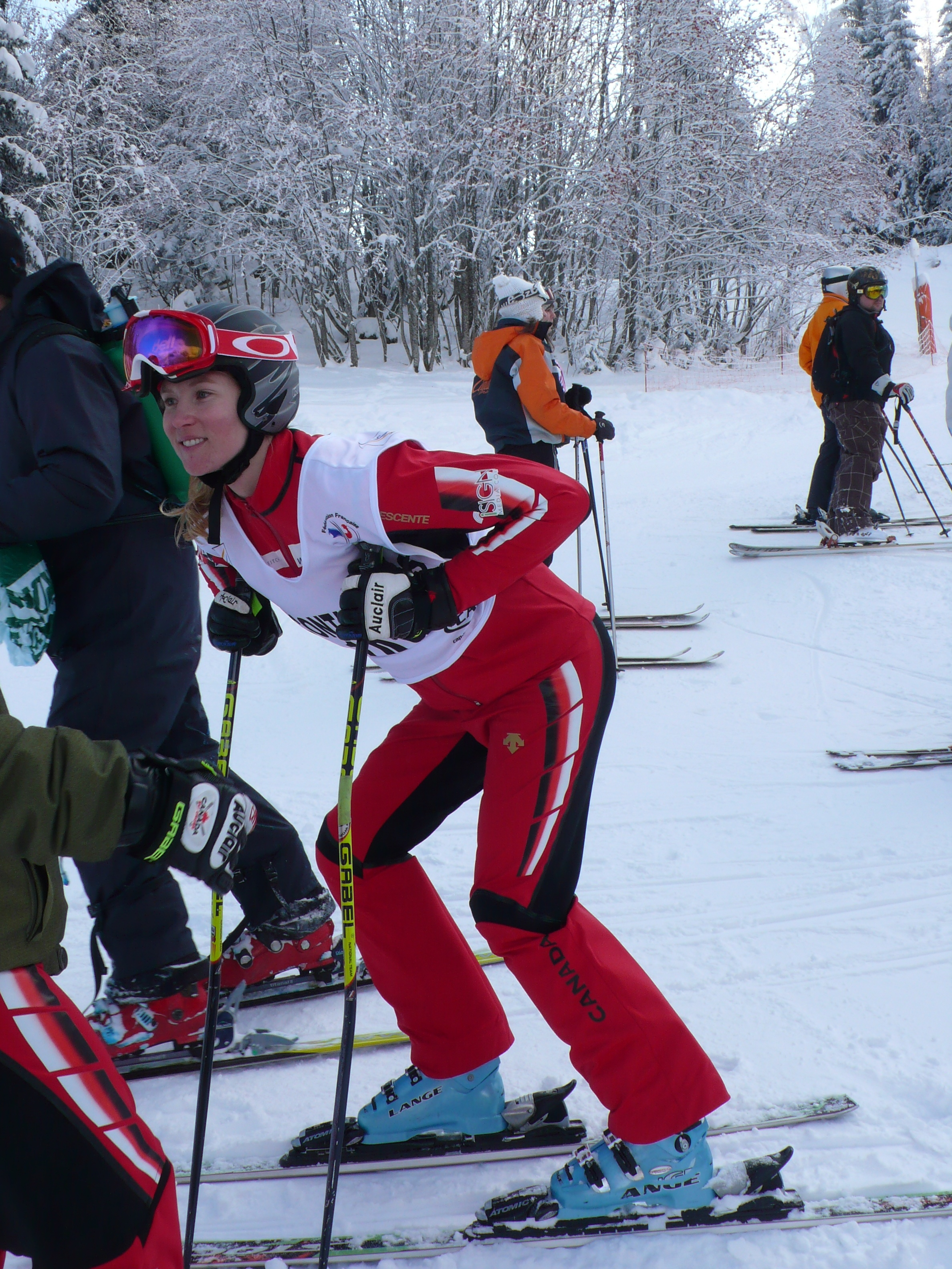 Ski Cross World Cup at Les Contamines-Montjoie, the winner Ashleigh McIvor